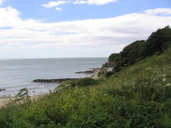 Photograph - Thanks to Peter Thomsom for releasing photo on GFDL.